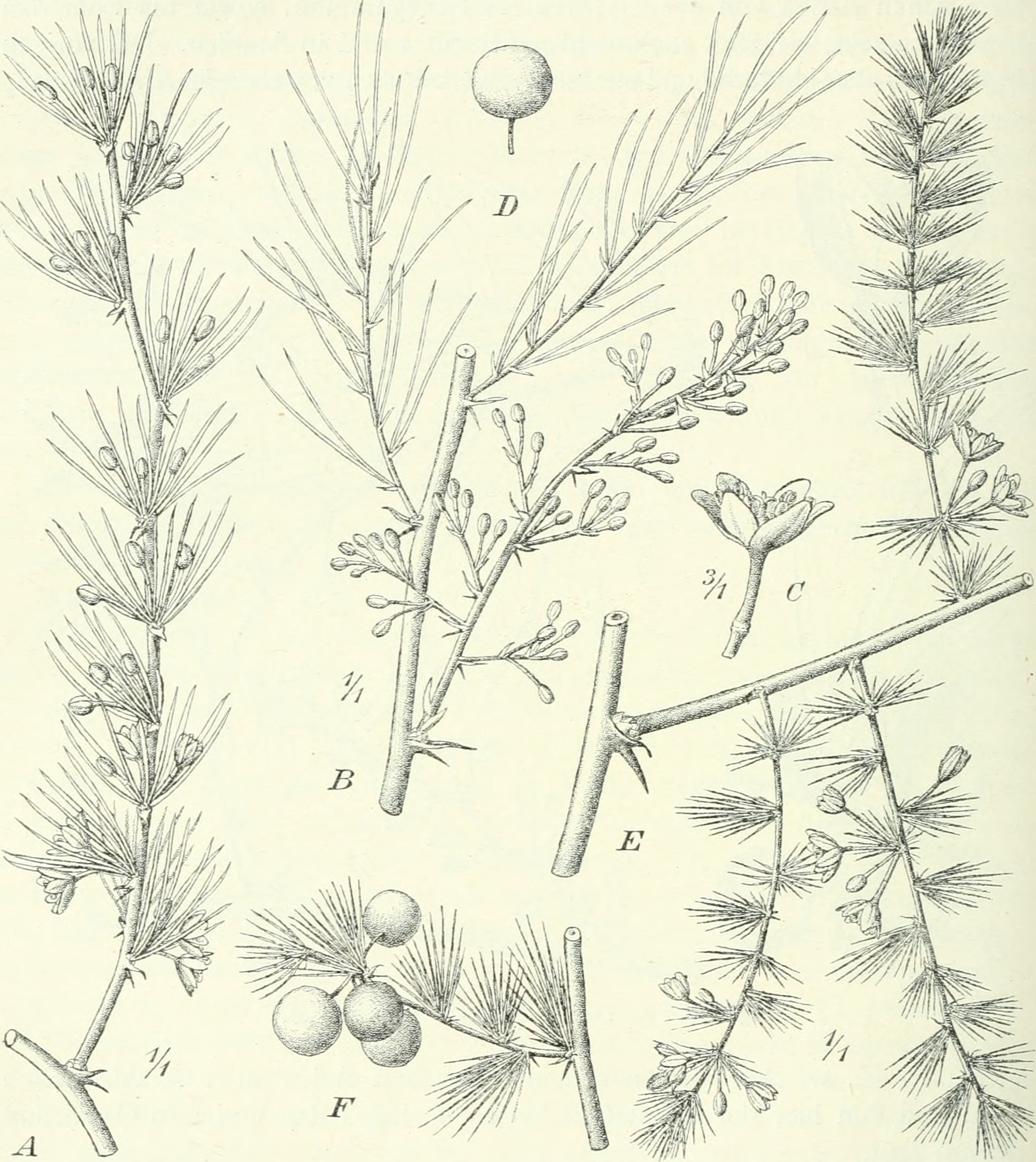 Title: Die Pflanzenwelt Afrikas, insbesondere seiner tropischen Gebiete : Grundzge der Pflanzenverbreitung im Afrika und die Charakterpflanzen Afrikas Year: 1910 (1910s) Authors: Engler, Adolf, 1844-1930 Subjects: Botany Publisher: Leipzig : W. Engelman Text Appearing Before Image: 288 Liliiflorae. — Liliaceae. Afrika bis nach Amboland angetroffen und wird auch vom Kapland angegeben. Mit dieser Art etwas verwandt ist der 2—3 m hoch kletternde A. drepanophylhis Wehv., bisweilen mit 3 mm breiten, 2—5 cm langen, schwach sichelförmigen Cla- dodien, eine ausgezeichnete Art, die im oberen Kongogebiet und Angola an Fluß- Text Appearing After Image: Fig. 191. A—D Asparagus africanus Lam. E—F A. asiaticus L. — Original. ufern, sowie in dichten Bergwäldern vorkommt. In die nähere Verwandtschaft von A. racemosus gehört auch der im südlichen Mittelmeergebiet und auf den Kanarischen Inseln vorkommende A. albus L., welcher auch lange Blattdornen entwickelt, die ihn zu einem Hakenkletterer machen. Endlich wollen wir von den etwa 40 bekannten afrikanischen Asparagus noch A. plumosus Bak. und